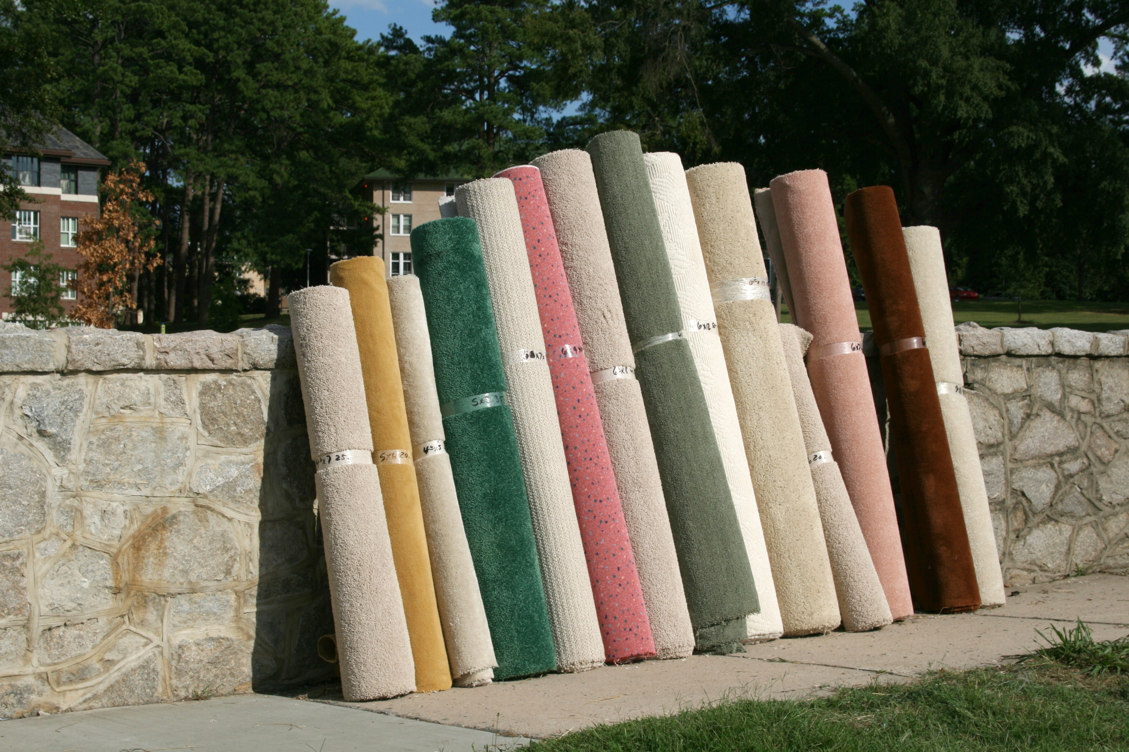 A line-up of rolled up carpets leaning against the wall of Duke University East Campus in Durham, North Carolina.